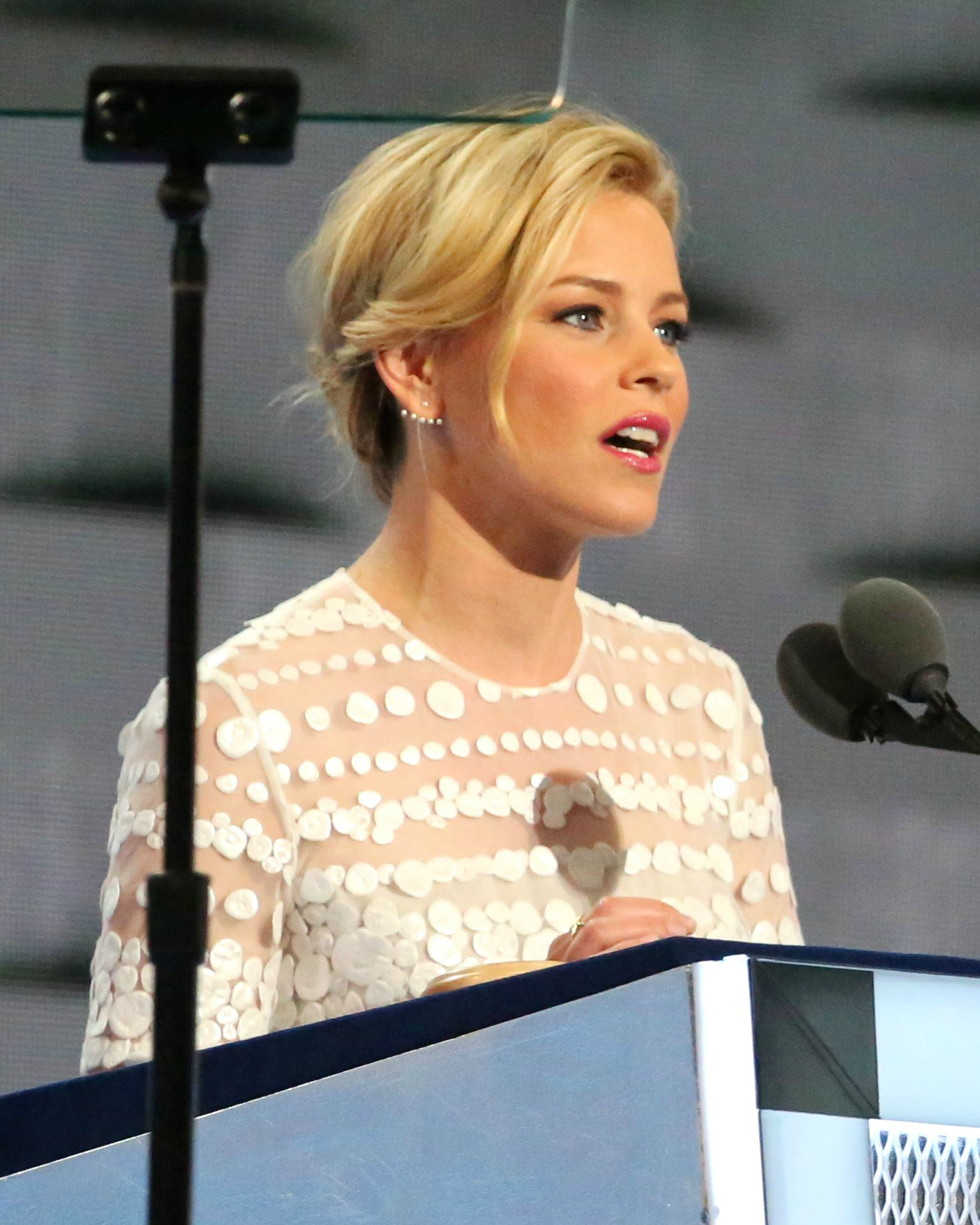 Actress Elizabeth Banks speaks on the second day of the Democratic National Convention in Philadelphia, July 26, 2016 (A. Shaker/VOA)